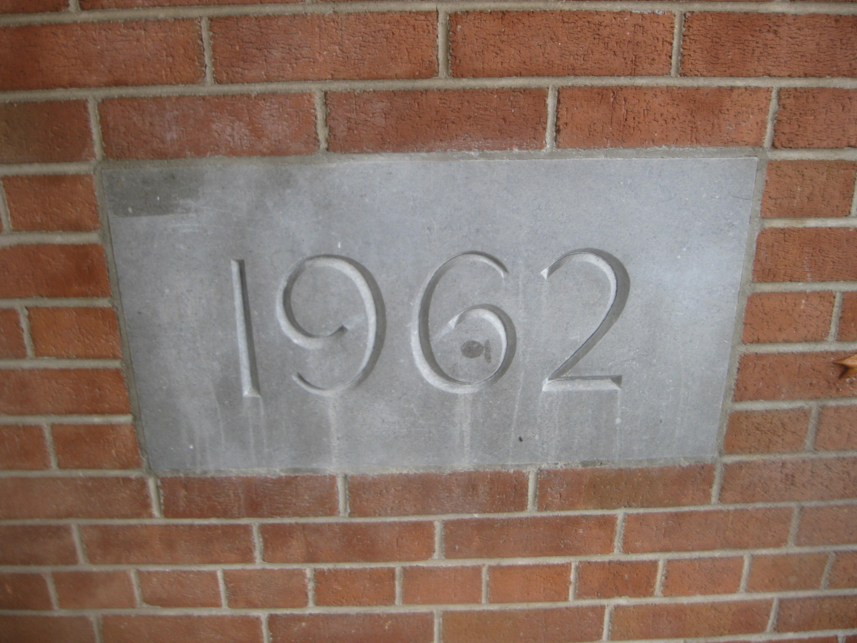 Datestone for Woburn Collegiate Institute from 1962.